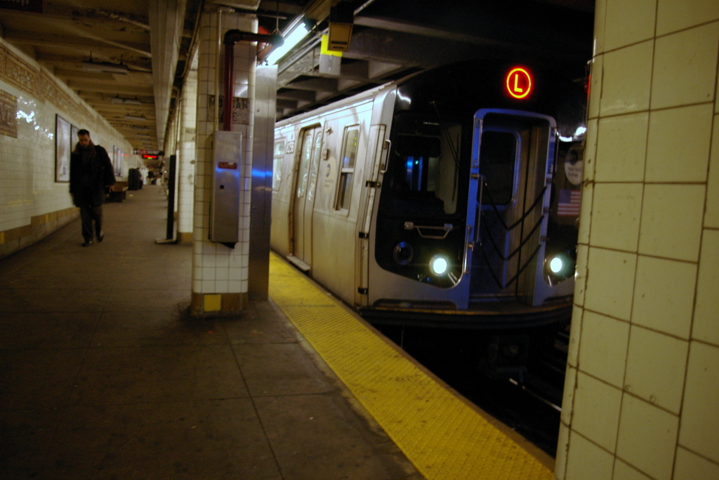 An L train at Morgan Avenue station on the BMT Canarsie Line.